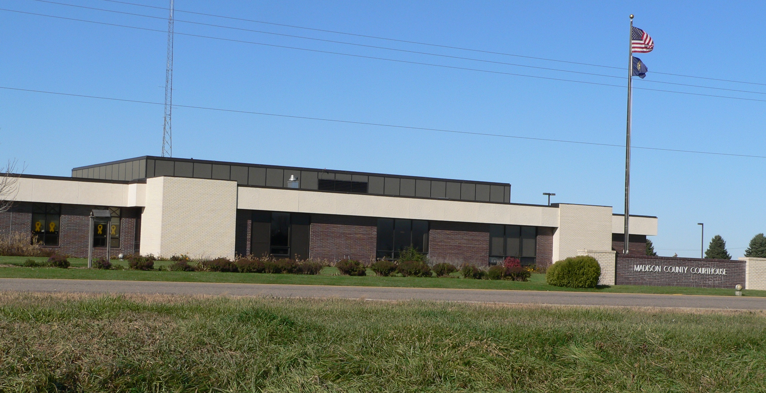 Madison County courthouse in Madison, Nebraska. View from east.